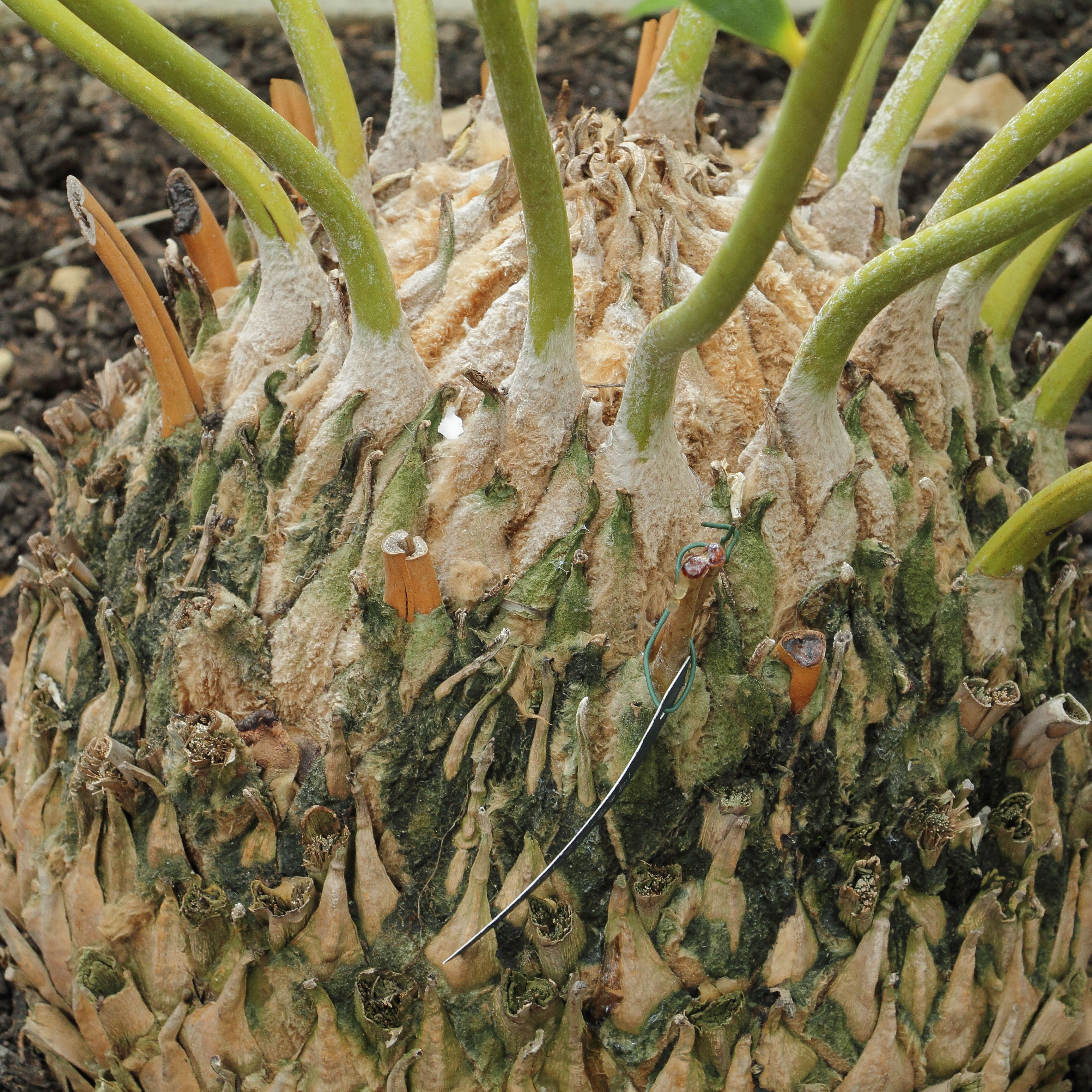 Encephalartos eugene-maraisii; Identified by the label at Kew Gardens, London